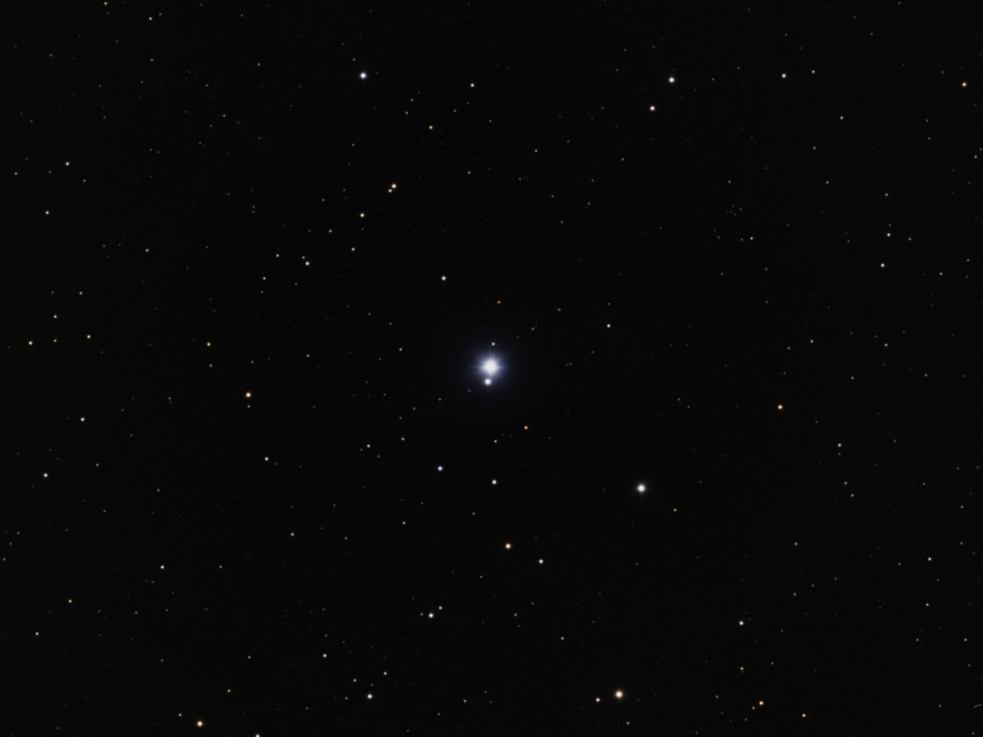 Pi Andromedae in optical light. Photographed from Edmonton, Canada.